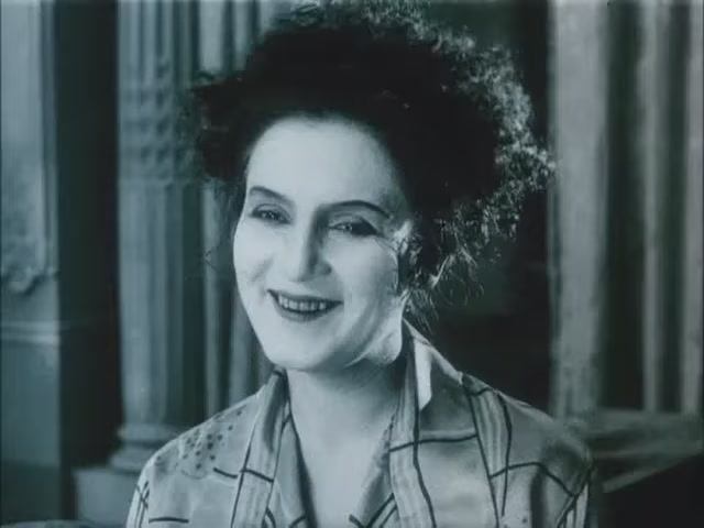 Image extracted from Le Brasier ardent, 1923 silent movie of France